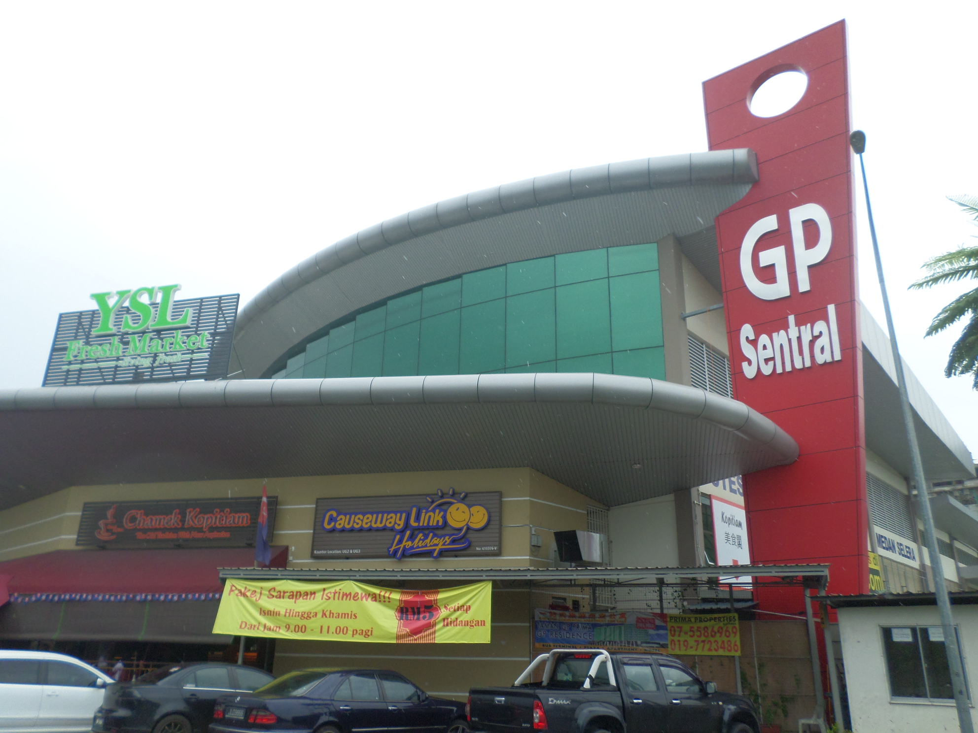 GP Sentral Bus Terminal, Gelang Patah, Johor Bahru, Johor, MalaysiaBahasa Melayu: Terminal Bas GP Sentral, Gelang Patah, Johor Bahru, Johor, Malaysia